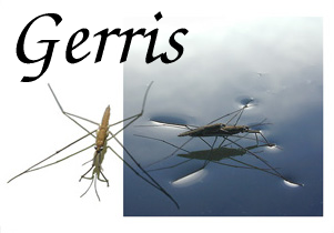 front logo from the Gerris website (Gerris is a CFD software)